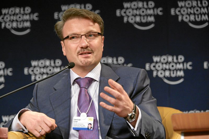 DAVOS/SWITZERLAND, 27JAN07 - Herman Gref, Minister of Economic Development and Trade of Russia, during a session at the Annual Meeting 2007 of the World Economic Forum in Davos, Switzerland, January 27, 2007. Copyright World Economic Forum ( swiss-image.ch